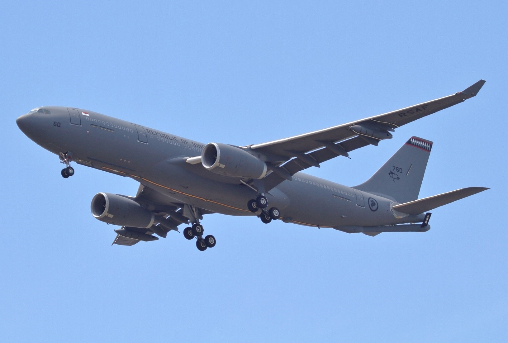 A Republic of Singapore Air Force (RSAF) Airbus A330 Multi Role Tanker Transport (MRTT) at Langkawi International Maritime and Aerospace Exhibition (LIMA) 2019